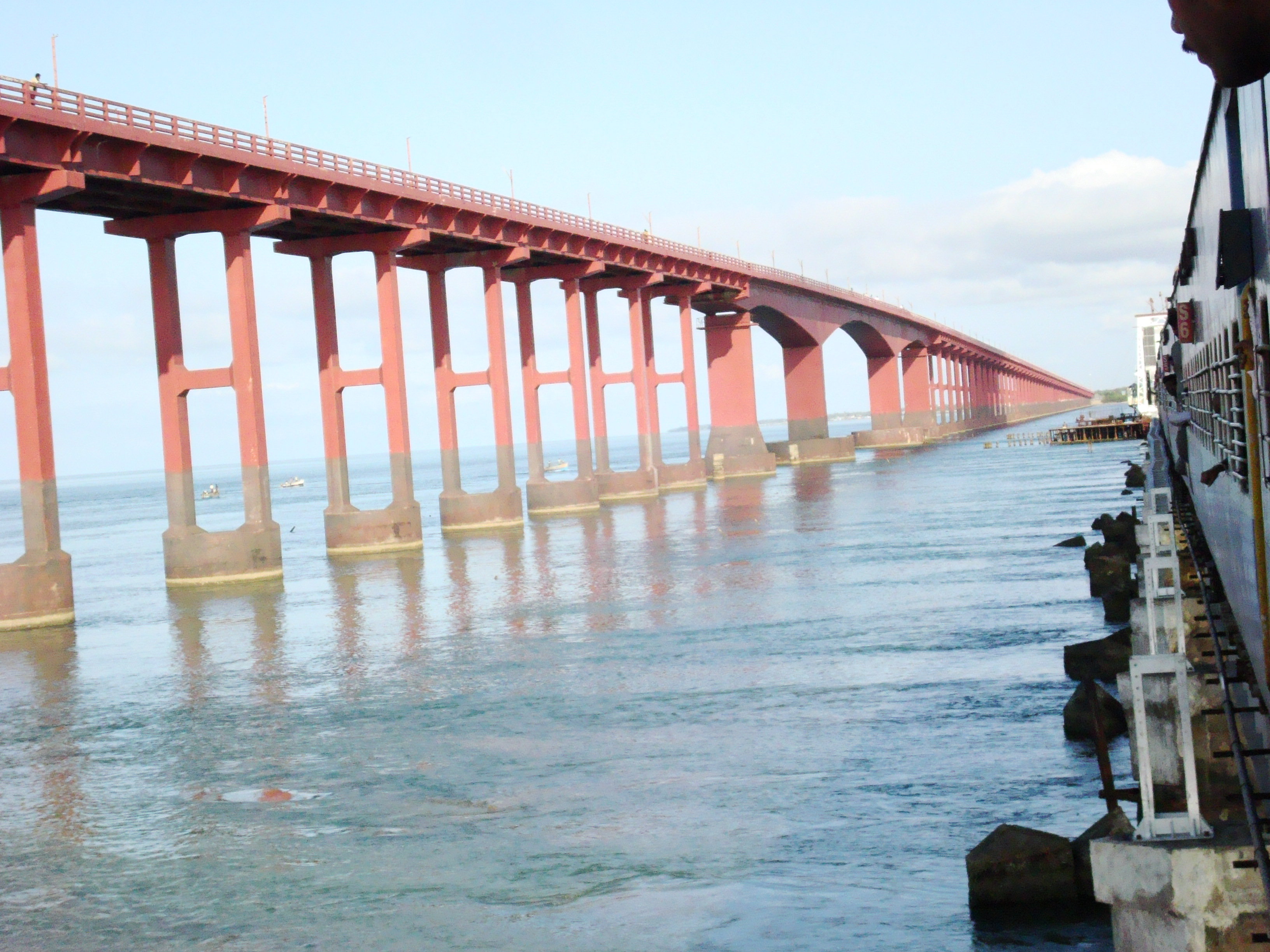 Pamban Bridge ~ Connecting Rameshwaram Island